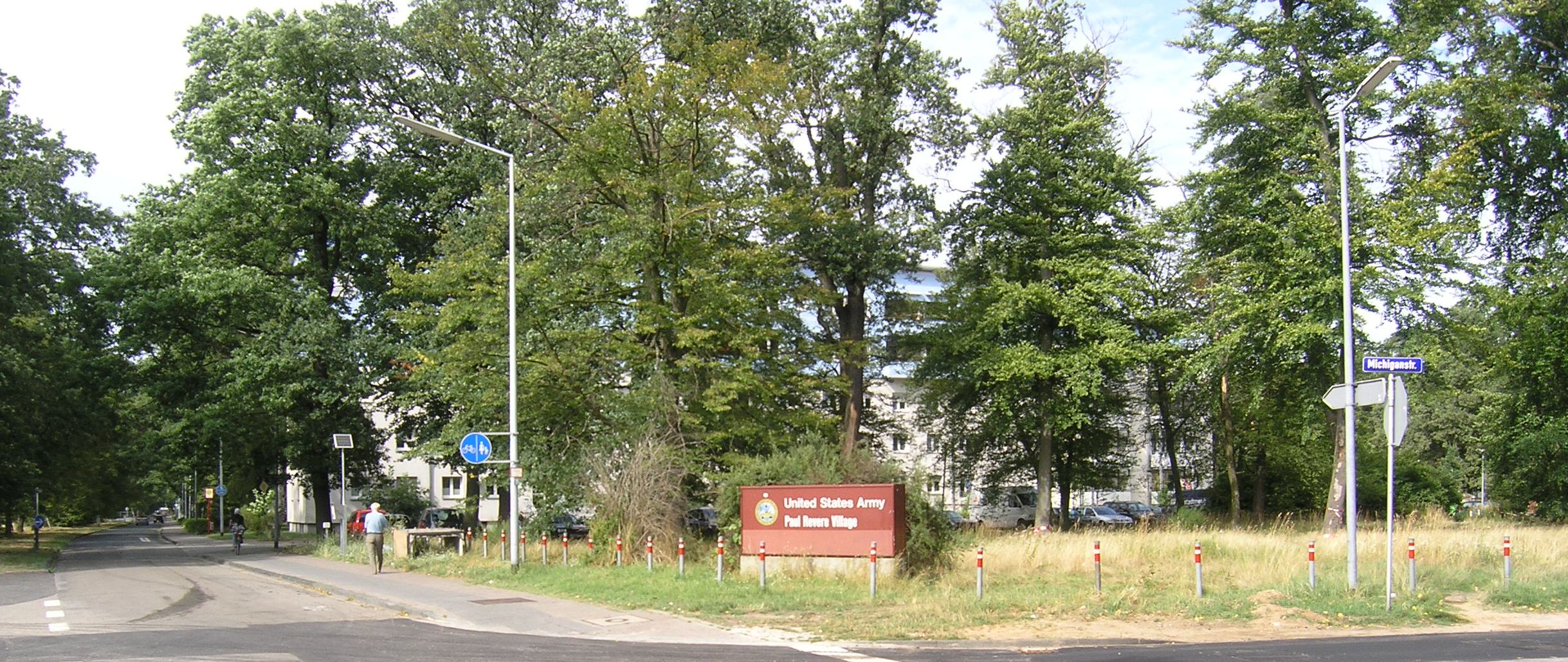 Paul Revere Village in Karlsruhe, former US army residence